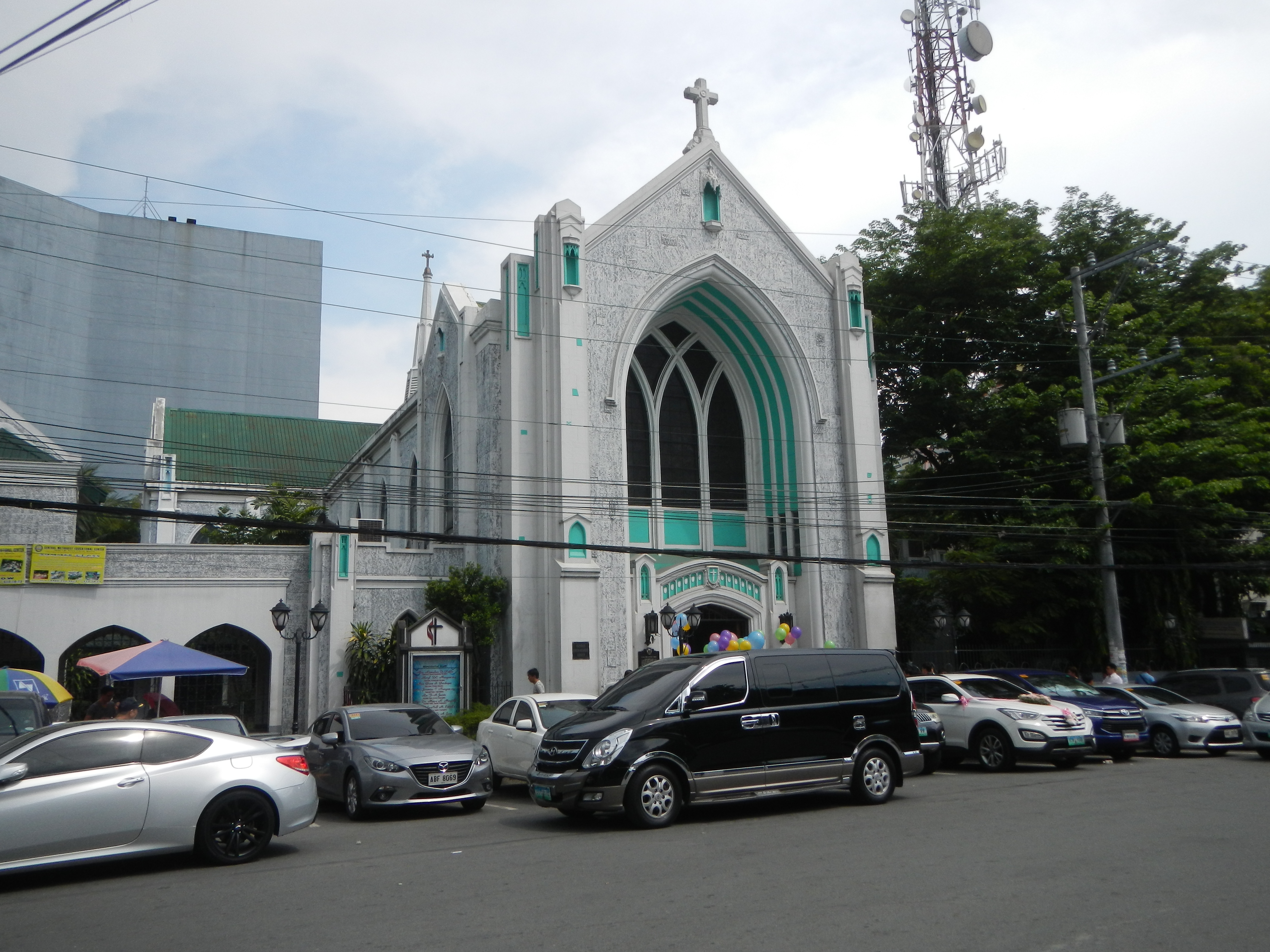 Wedding at the United Central Methodist Church, Established March 5, 1899 in 694 Taft Avenue corner T.M. Kalaw Street, Ermita, City of Manila.